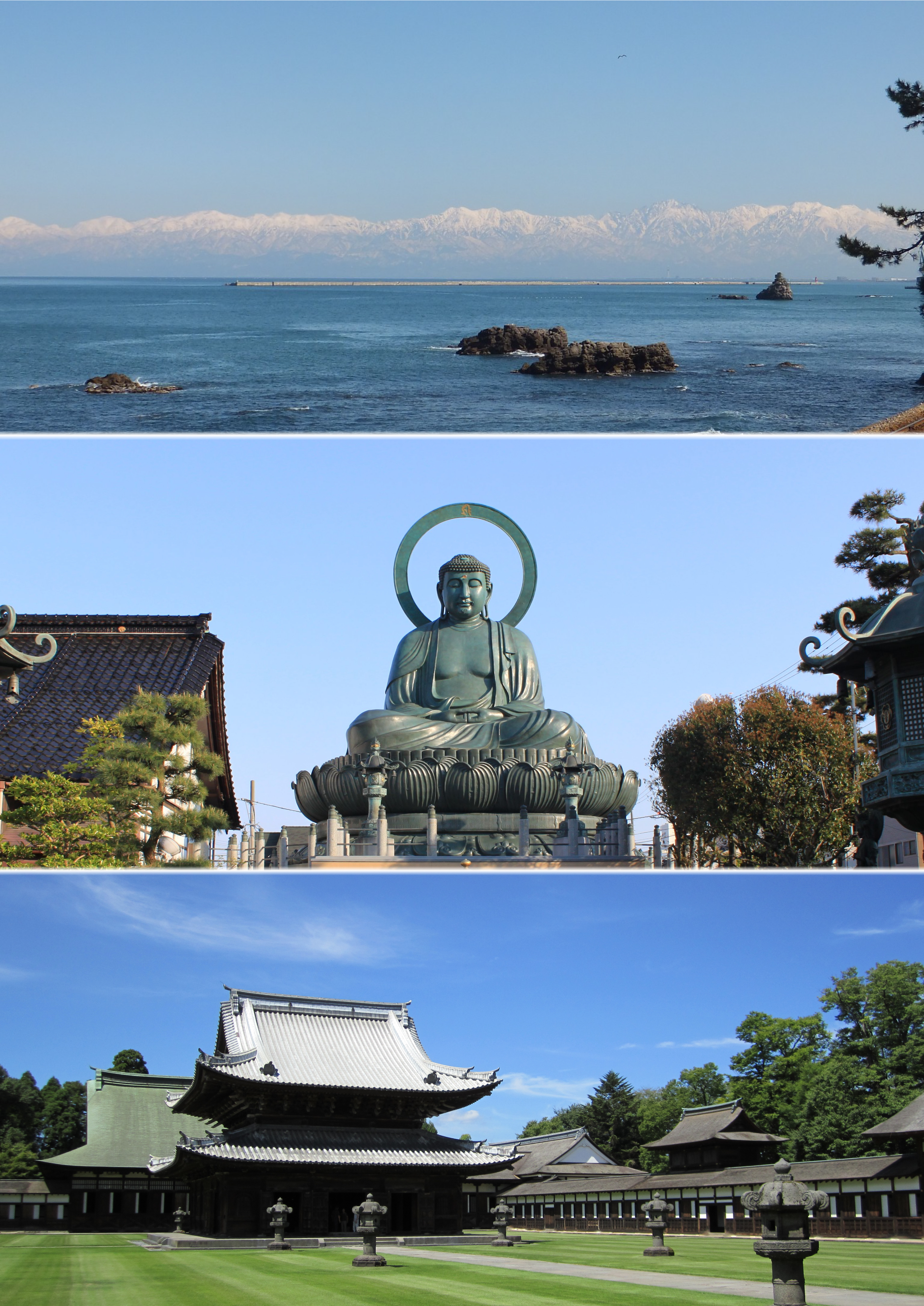 Takaoka montage